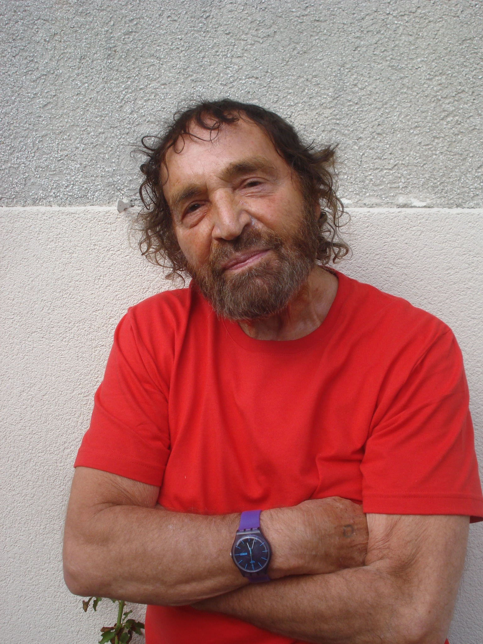 Portrait of Alex Sadkowsky